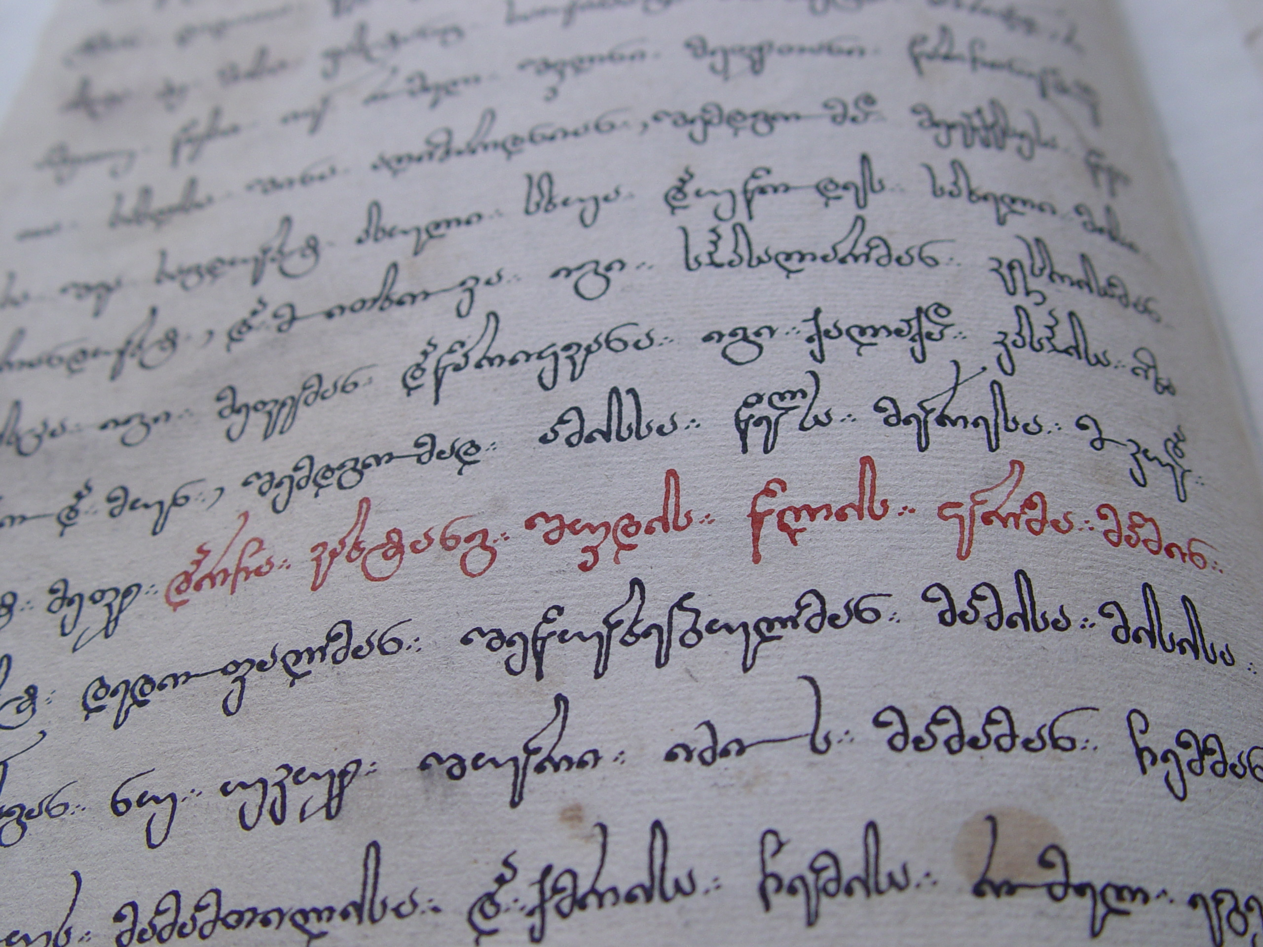 Georgian Chronicles of Queen Ana